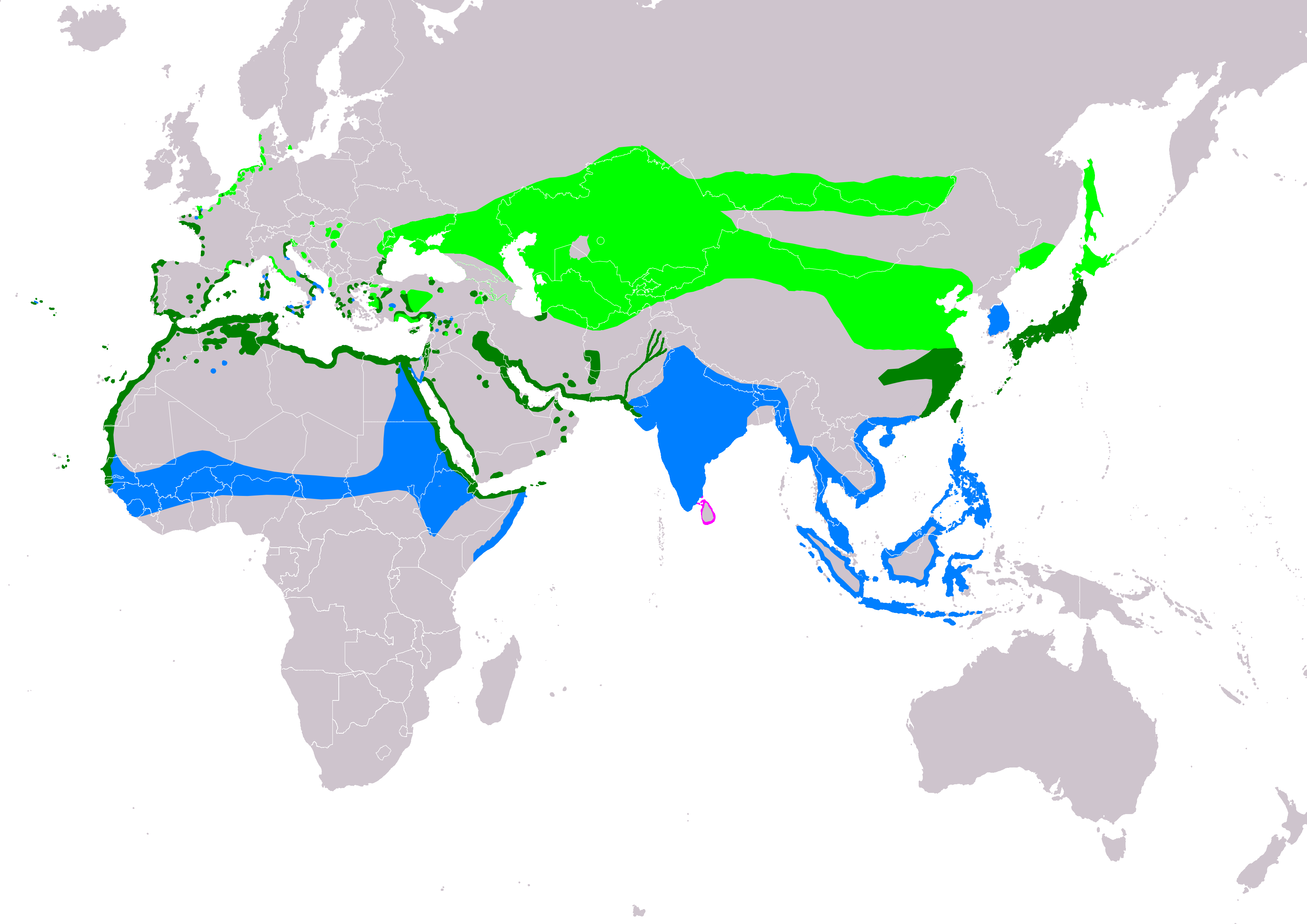 Distribution map of kentish plover (Charadrius alexandrinus) according to IUCN version 2018.2 , Legend: Extant, breeding (#00FF00), Extant, resident (#008000), Extant, non-breeding (#007FFF), Extant & Vagrant (seasonality uncertain) (#FF00FF)